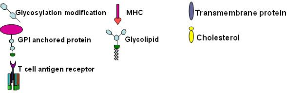 Lipid raft - componments for T-cell antigen receptor signalling